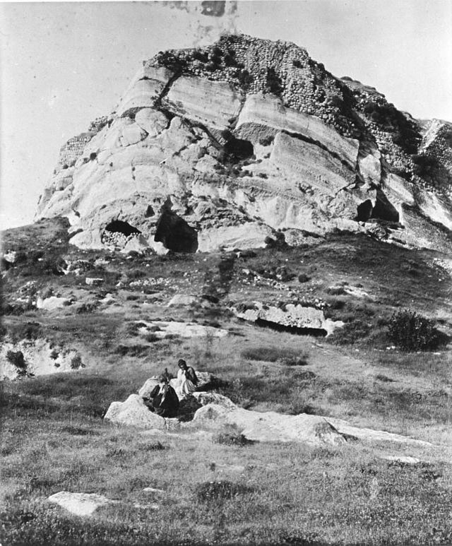 Pinaca (Pinaka) Castle, Southeastern Anatolia